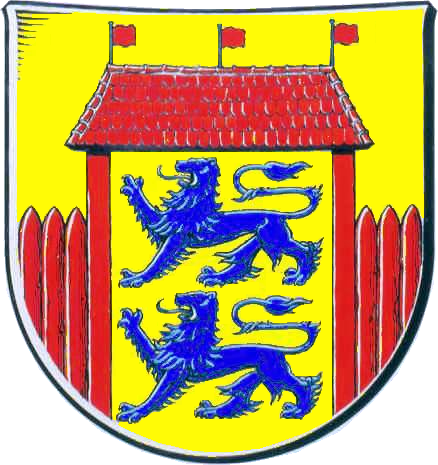 Coat of arms of the German city of Husum in Schleswig-Holstein